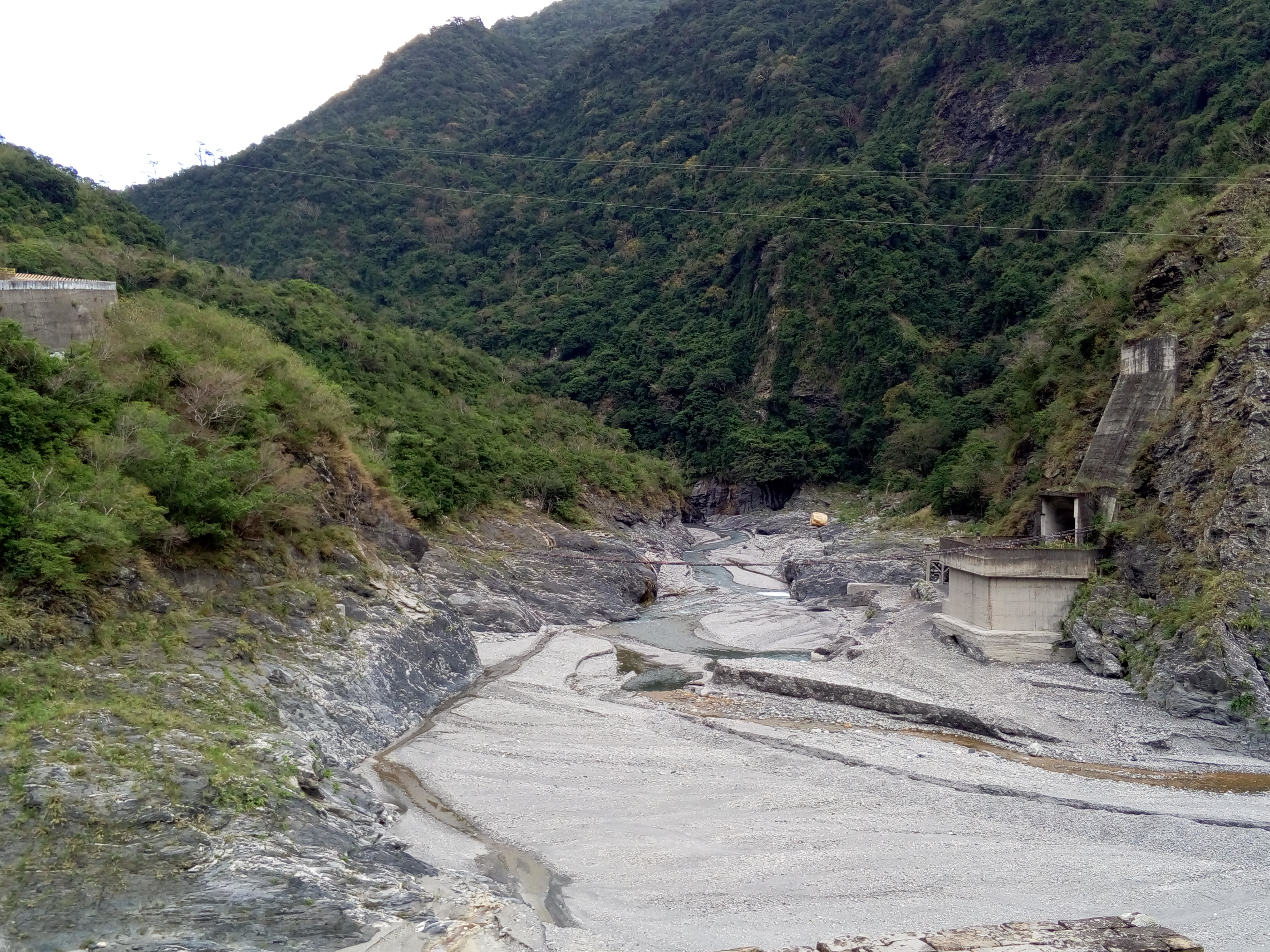 Taiwan(R.O.C)Taitung Yanping Township Beinan first waterway